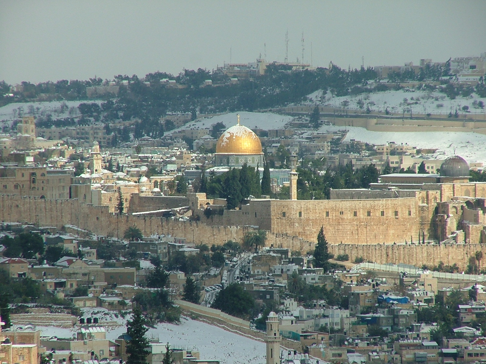 View from the Sherover Promenade overlooking the old city in Jerusalem during the snowfall of the 2013 Middle East cold snap.